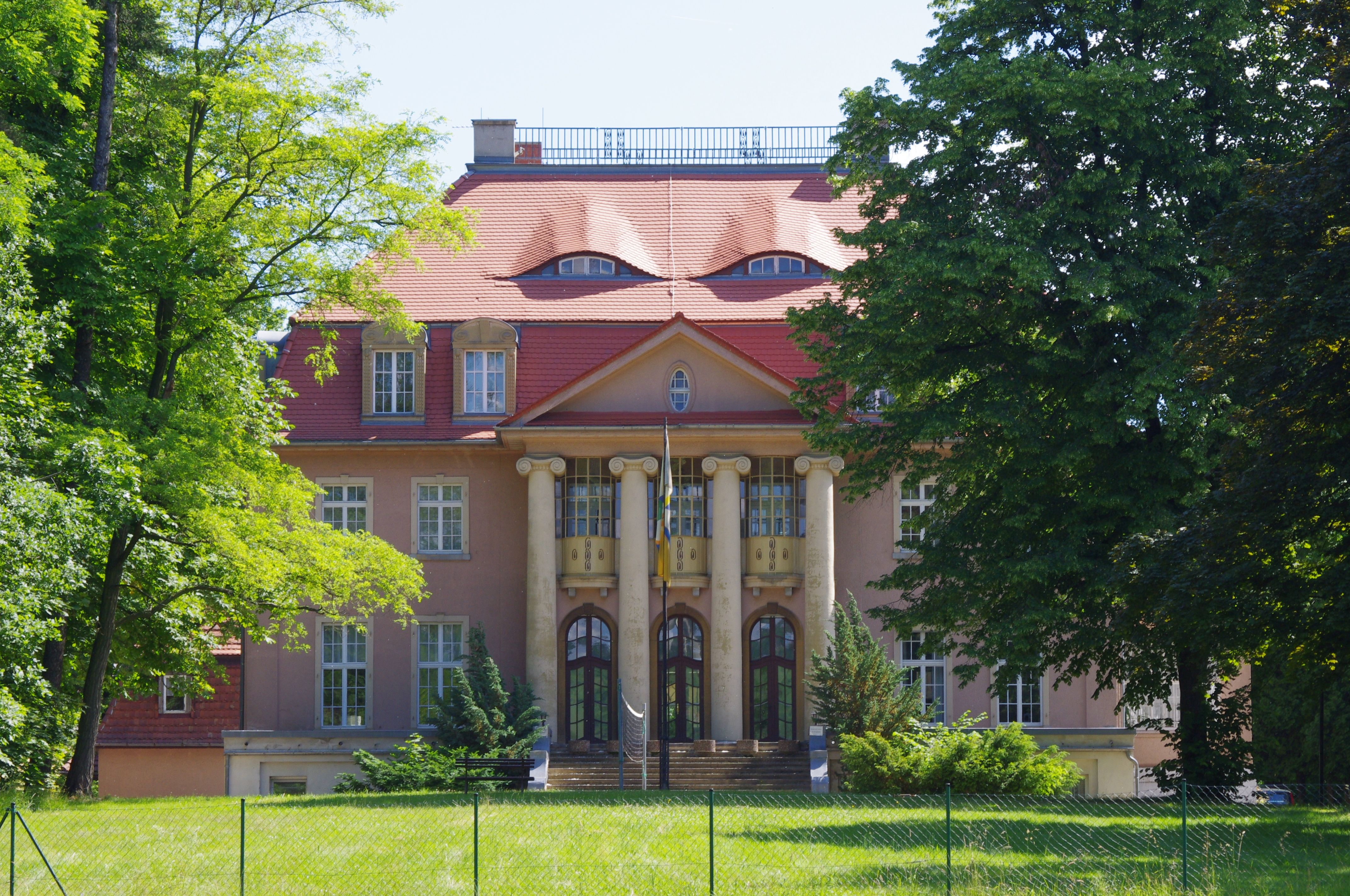 Manor house Oberoderwitz at Oderwitz, Saxony, errected 1910/1911